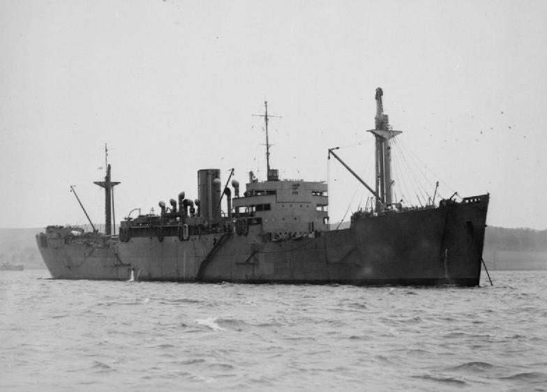 British submarine depot ship HMS BONAVENTURE at anchor.